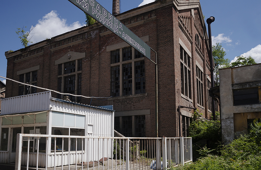 Aleksinac Mines, the look of the building, 1883.